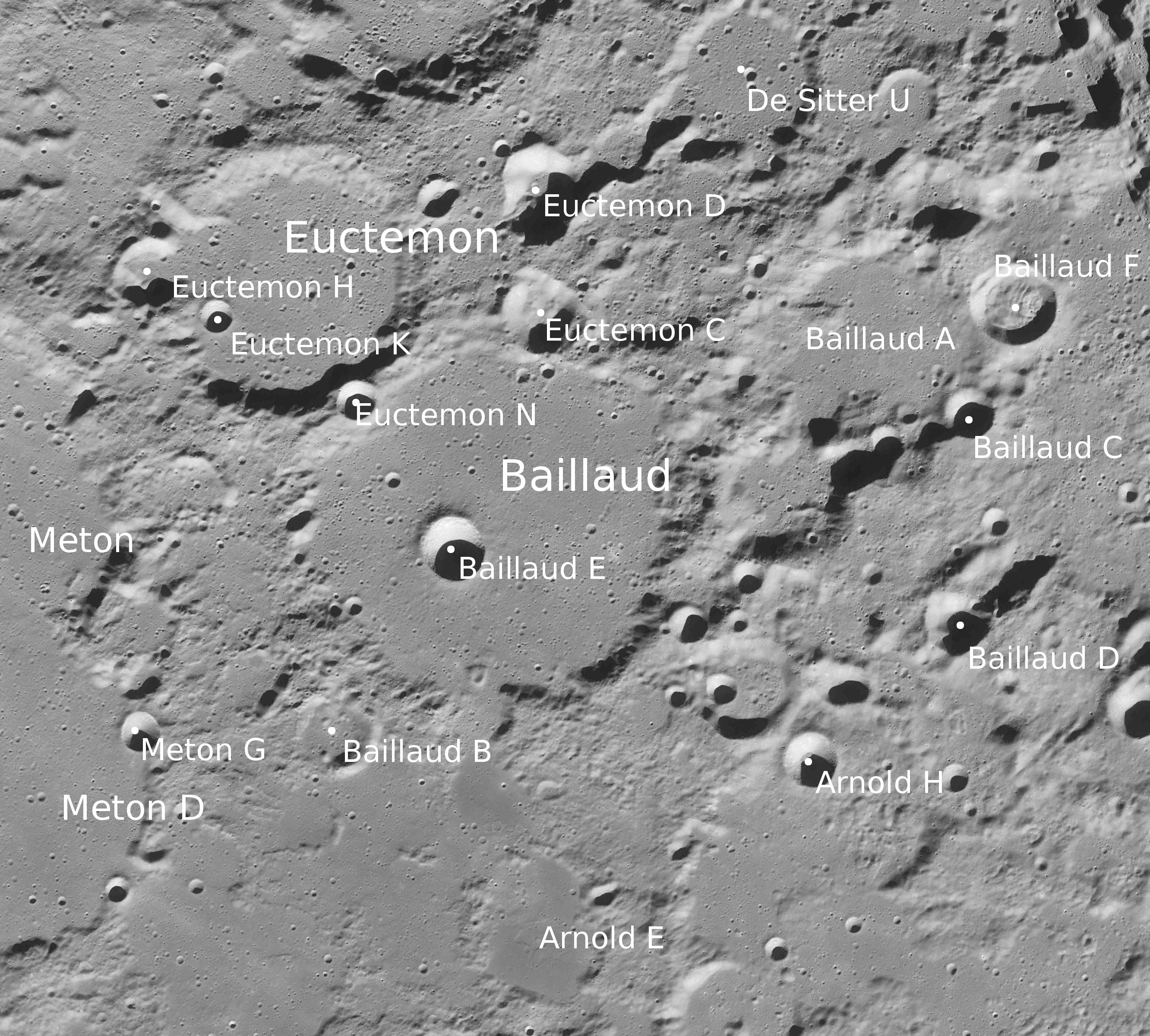 Moon craters Euctemon und Baillaud with satellite features (north at top; detail of LRO - WAC north pole mosaic)